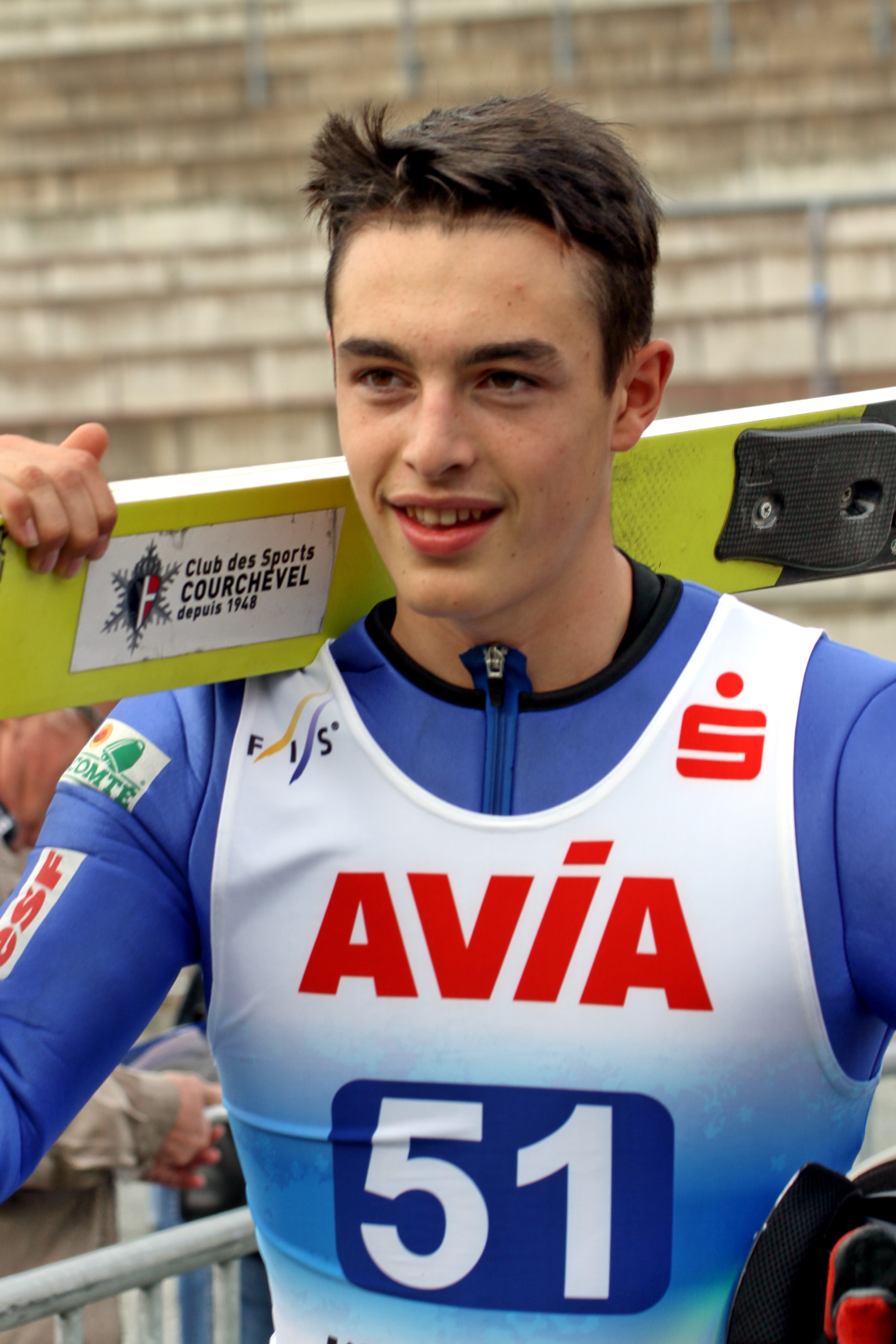 FIS Ski Jumping Summer Continental Cup Klingenthal 2017 Jonathan Learoyd